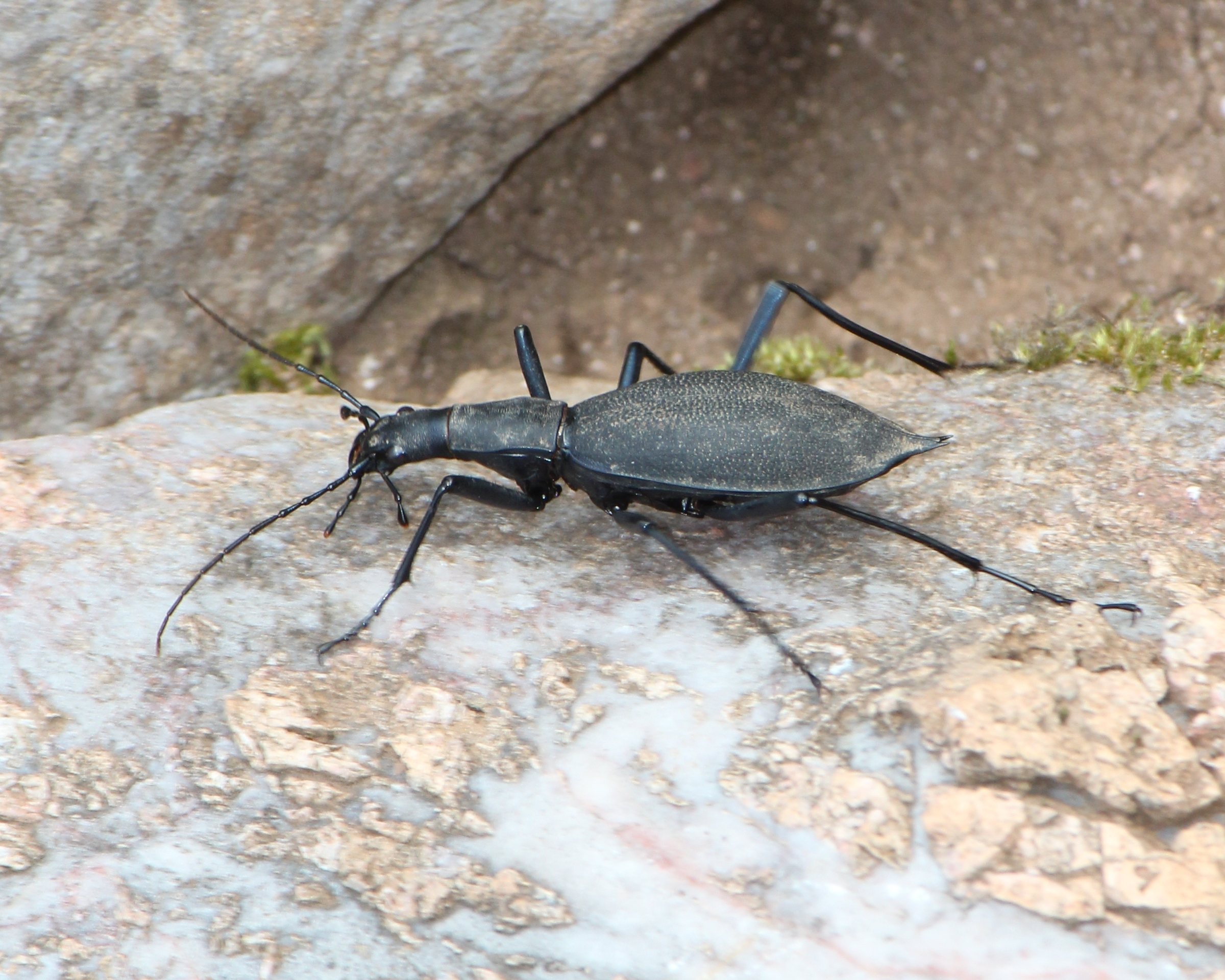 Damaster blaptoides blaptoides in Mount Ibuki, Maibara, Shiga prefecture, Japan.